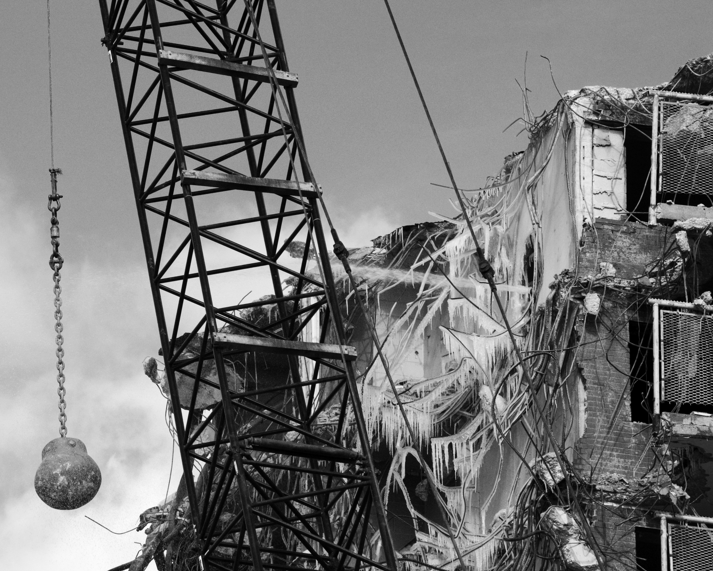 Wrecking ball in use during demolition of the Rockwell Gardens housing project in Chicago, Illinois, February 2006.